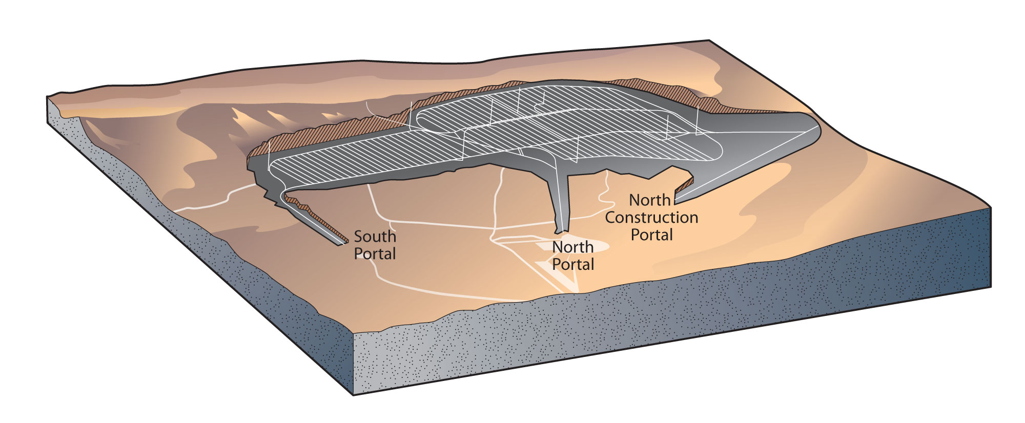 The nuclear waste repository at Yucca Mountain will sit inside a long ridge, approximately 1,000 feet beneath the surface and 1,000 feet above the water table. Consisting of 40 miles of tunnels, the repository will accommodate an estimated 77,000 tons of nuclear waste.